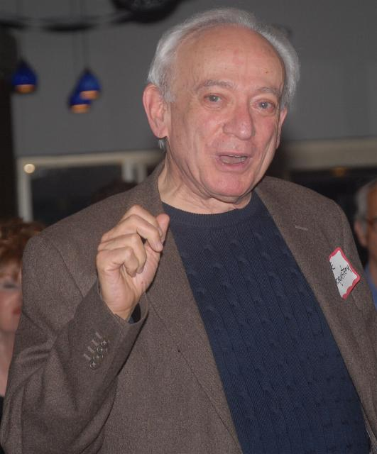 Joe Morgenstern at A Return to Corky’s: The Ultimate Herald Examiner Almost-20th Reunion Party.